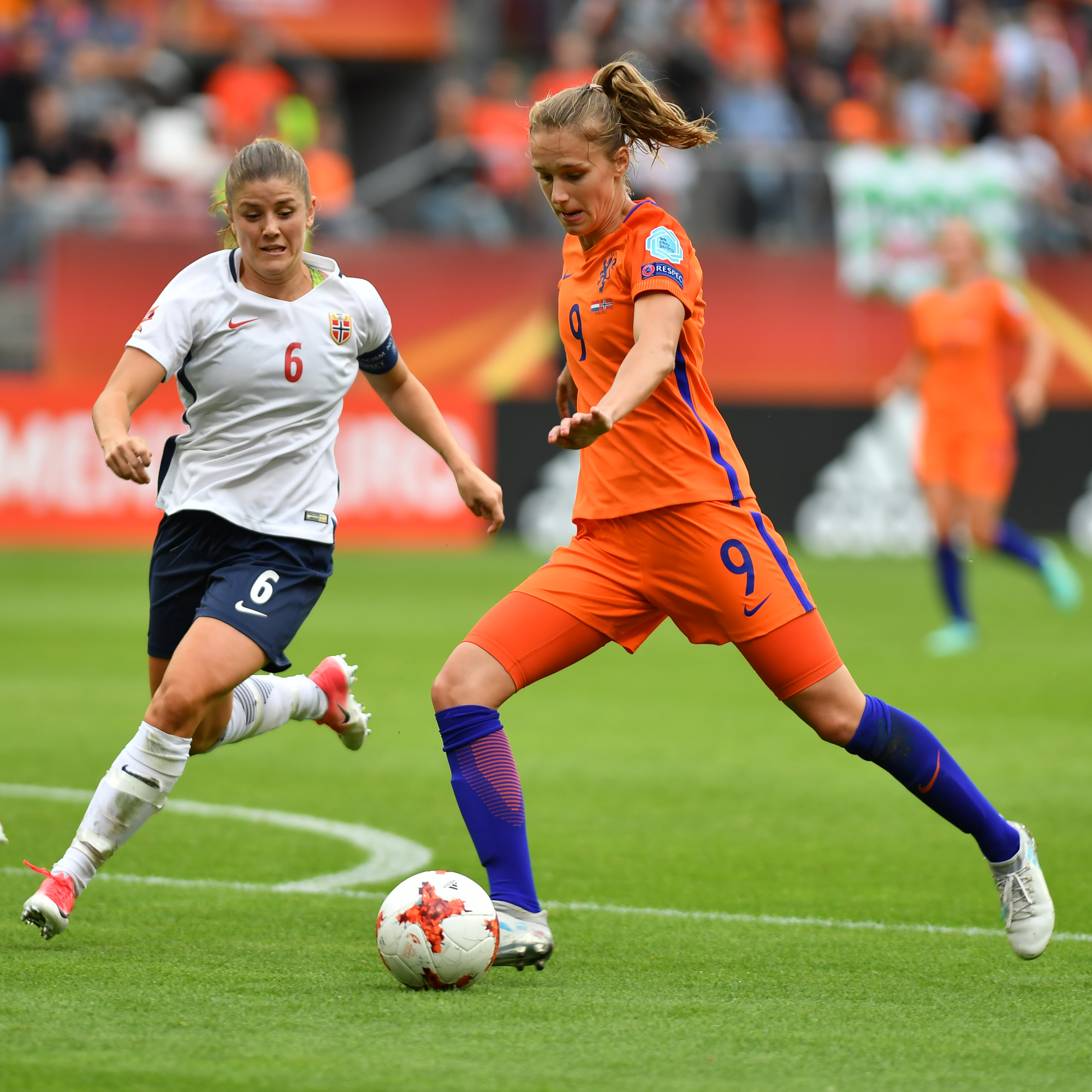 16/7/2017, Utrecht, Netherlands, sports, soccer, UEFA Womens Euro 2017 - The Netherlands vs Norway.